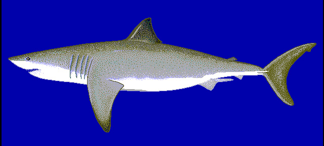 White shark (Carcharodon carcharias)